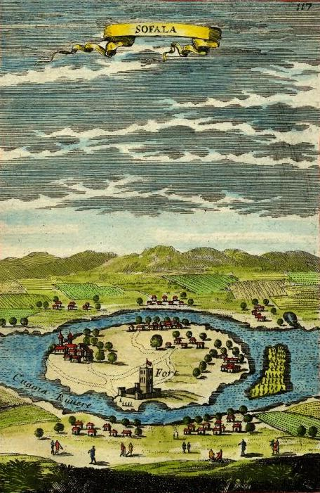 view of Sofala, Mozambique, in 1683